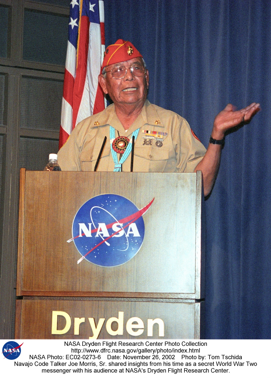 Navajo Code Talker Joe Morris, Sr.speaks at NASA's Dryden Flight Research Center on November 26, 2002.